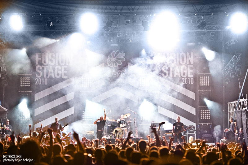 Photo by Bojan Hohnjec EXIT Photo Team